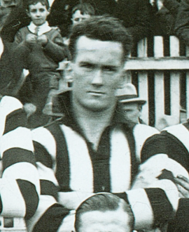 Photo of Tom Hallahan in 1932